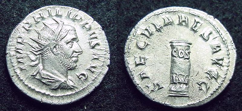 Cippus commemorating Roman Millennium